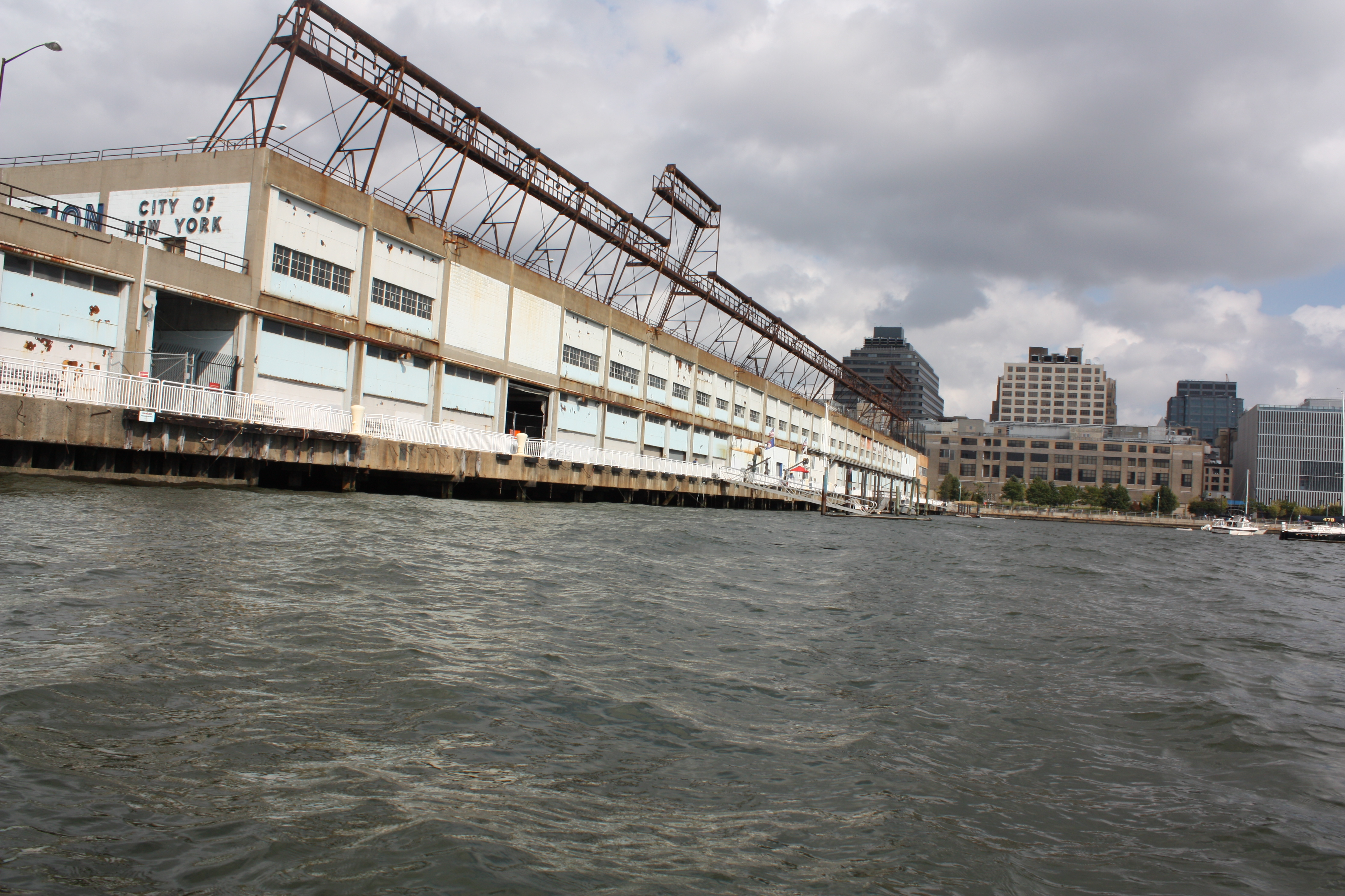 South walkway of Pier 40 at Hudson River Park from the water